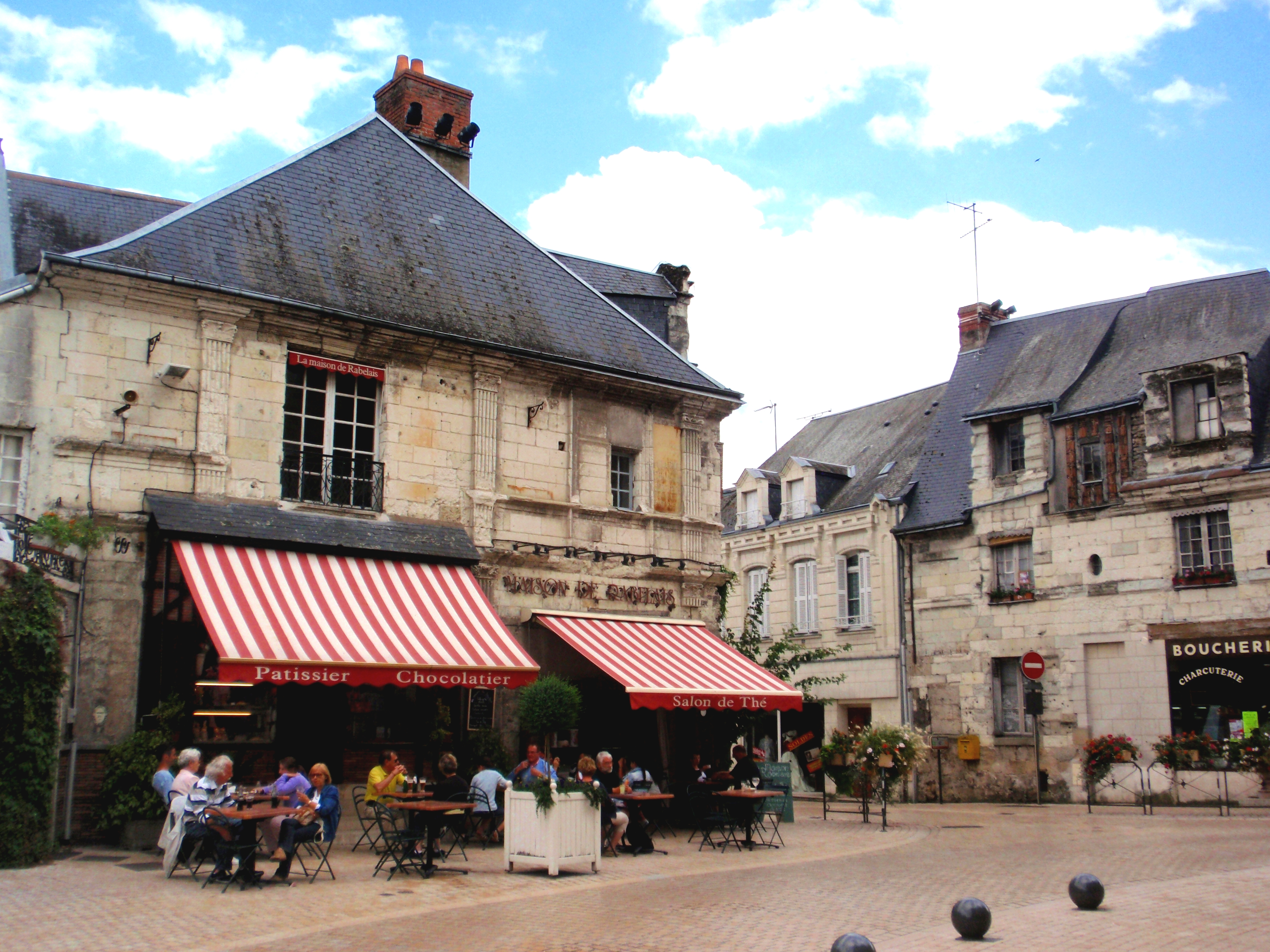 down town bakery and café in Langeais, France